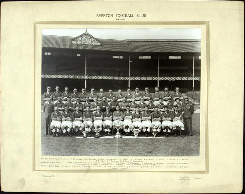 Team photograph of the 1939-40 Everton squad.